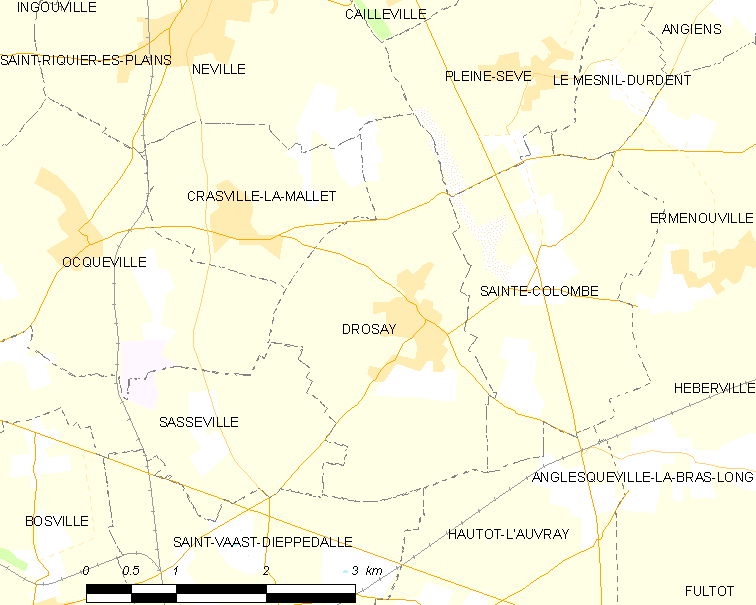 Map of French municipality Drosay